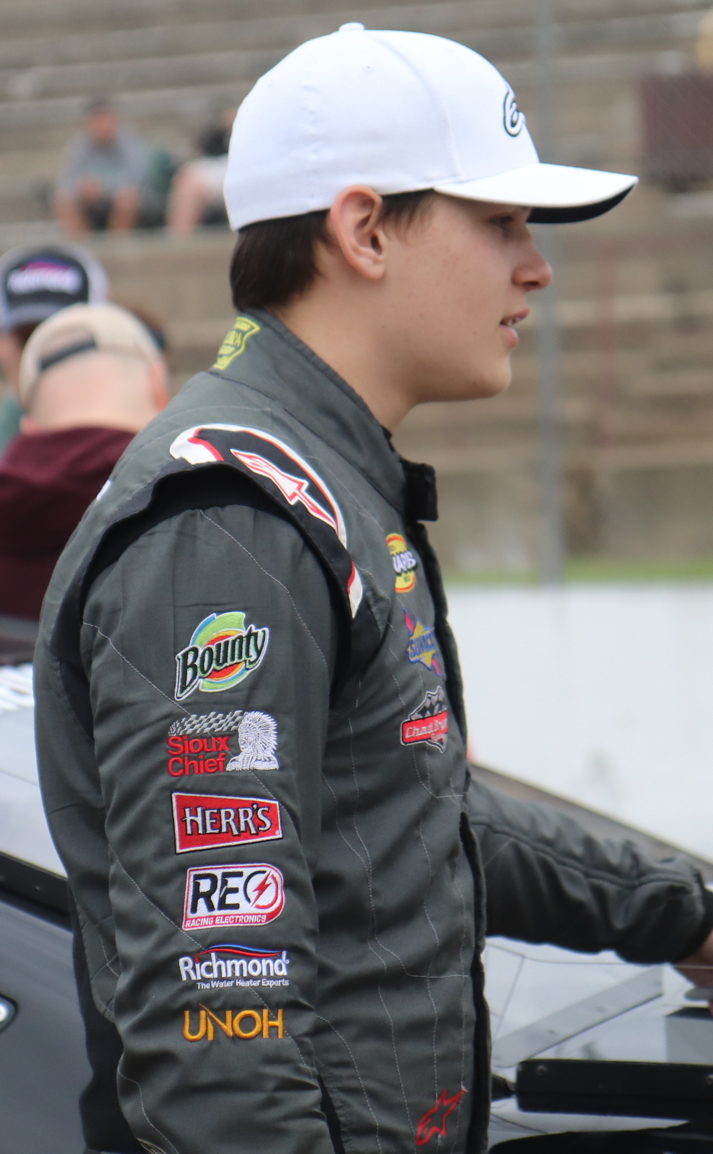 ARCA driver Corey Heim at Madison International Speedway.